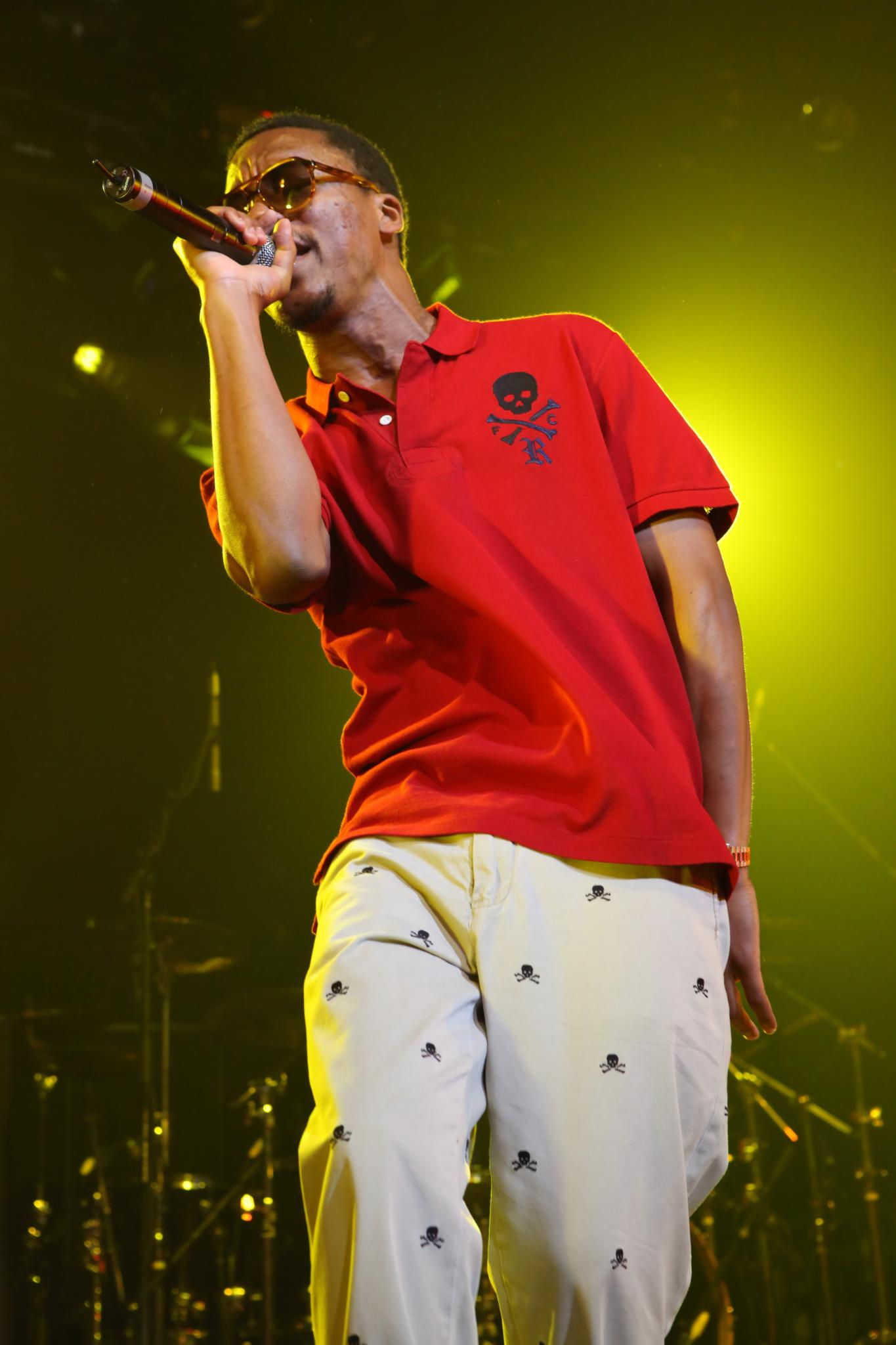 Lupe Fiasco performing in Melbourne, Australia on January 26, 2009.